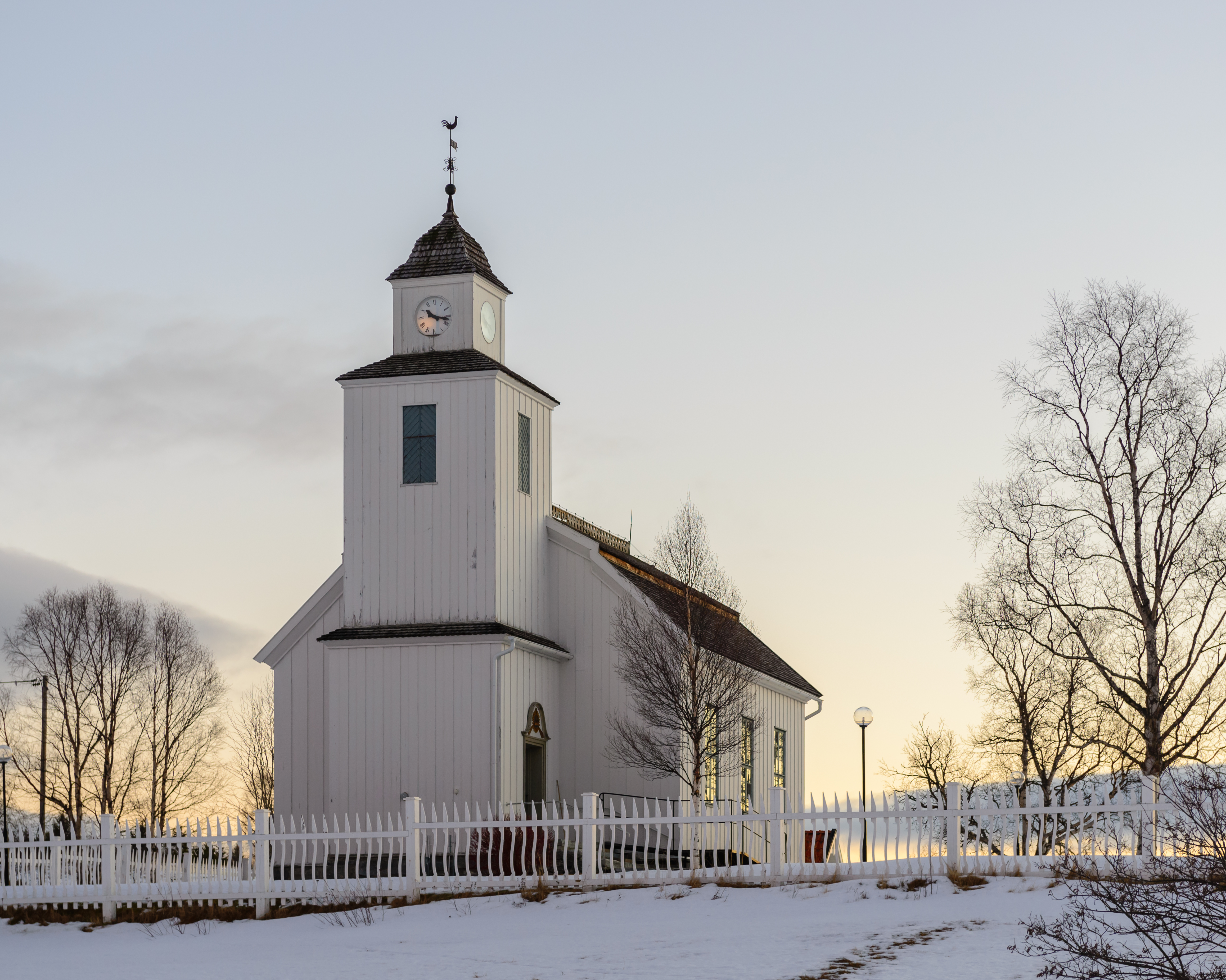 Storsjö kyrka (church) built 1812 in the small village Storsjö in Berg municipality, Jämtland County. Church of Sweden, Diocese of Härnösand, Hedebygdens Parish.